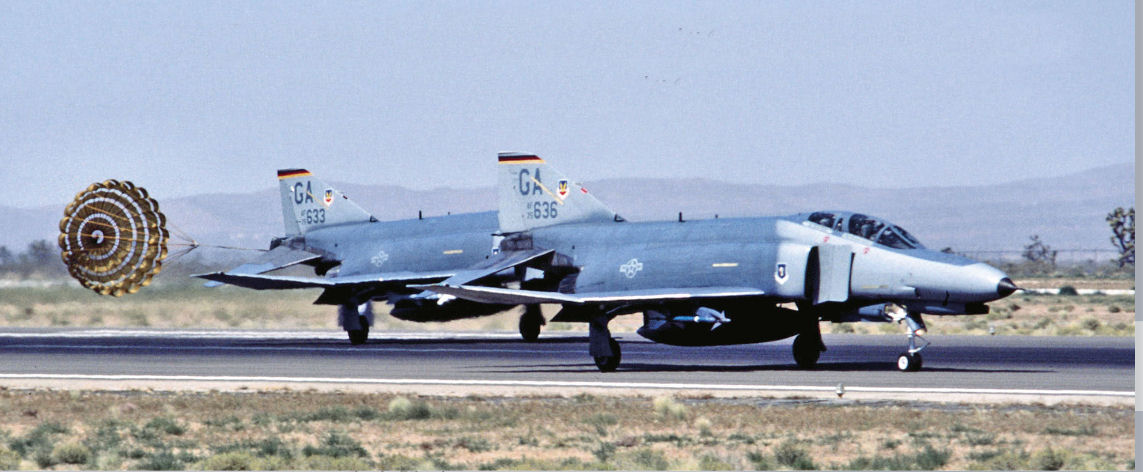 20th Fighter Squadron Lufwaffe F-4E Phantom II 75-0633 and 75-0636 seen rolling out at George AFB, California